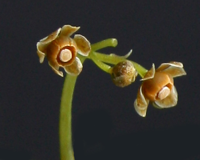 Close-up of female flowers of Stephania delavayi (Menispermaceae).